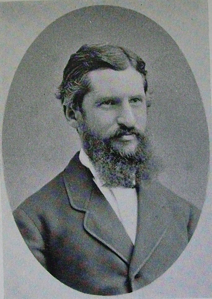 Picture of Gabriel Heyman, Swedish politician